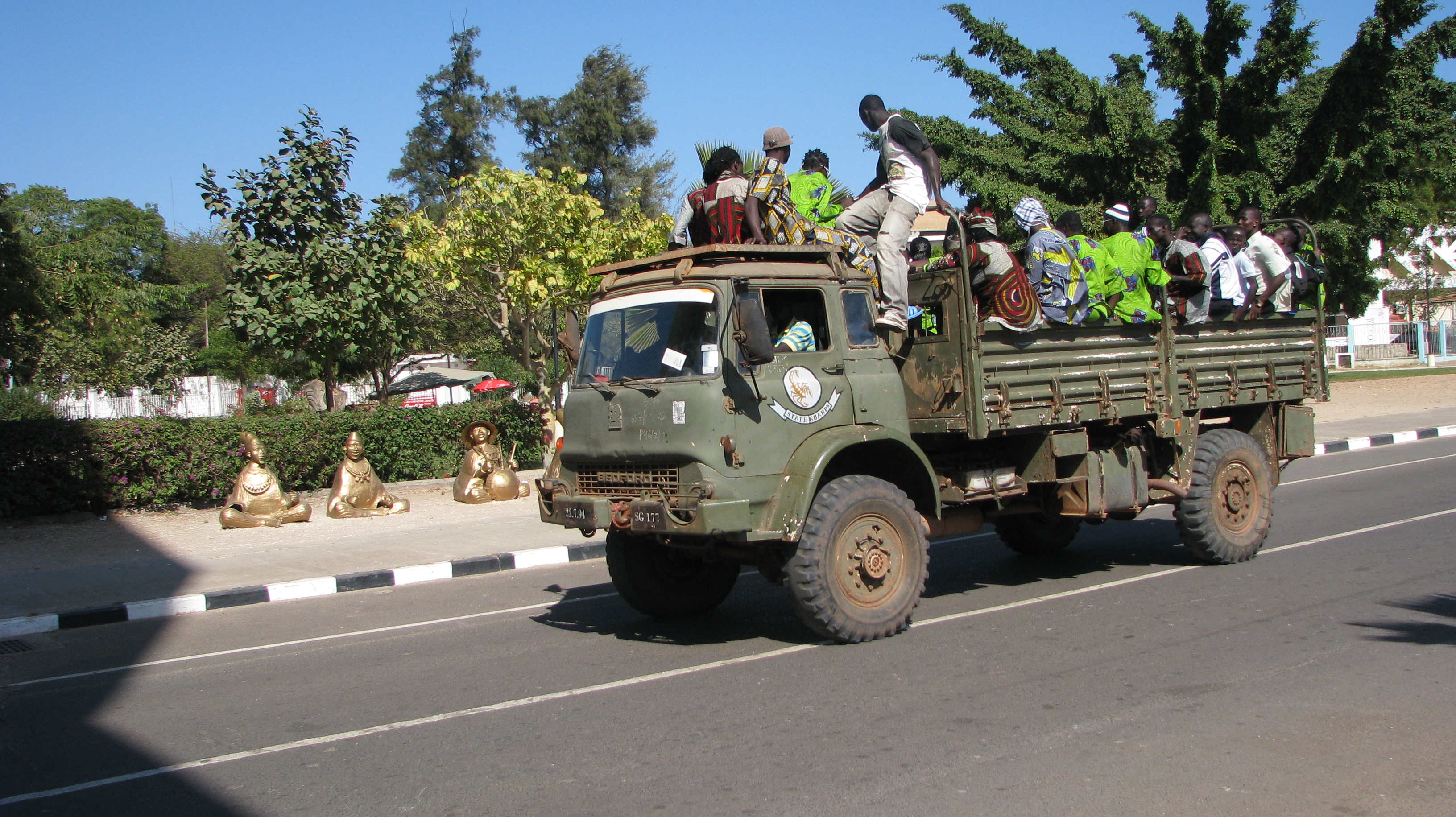 Banjul, The Gambia 25th February 2010